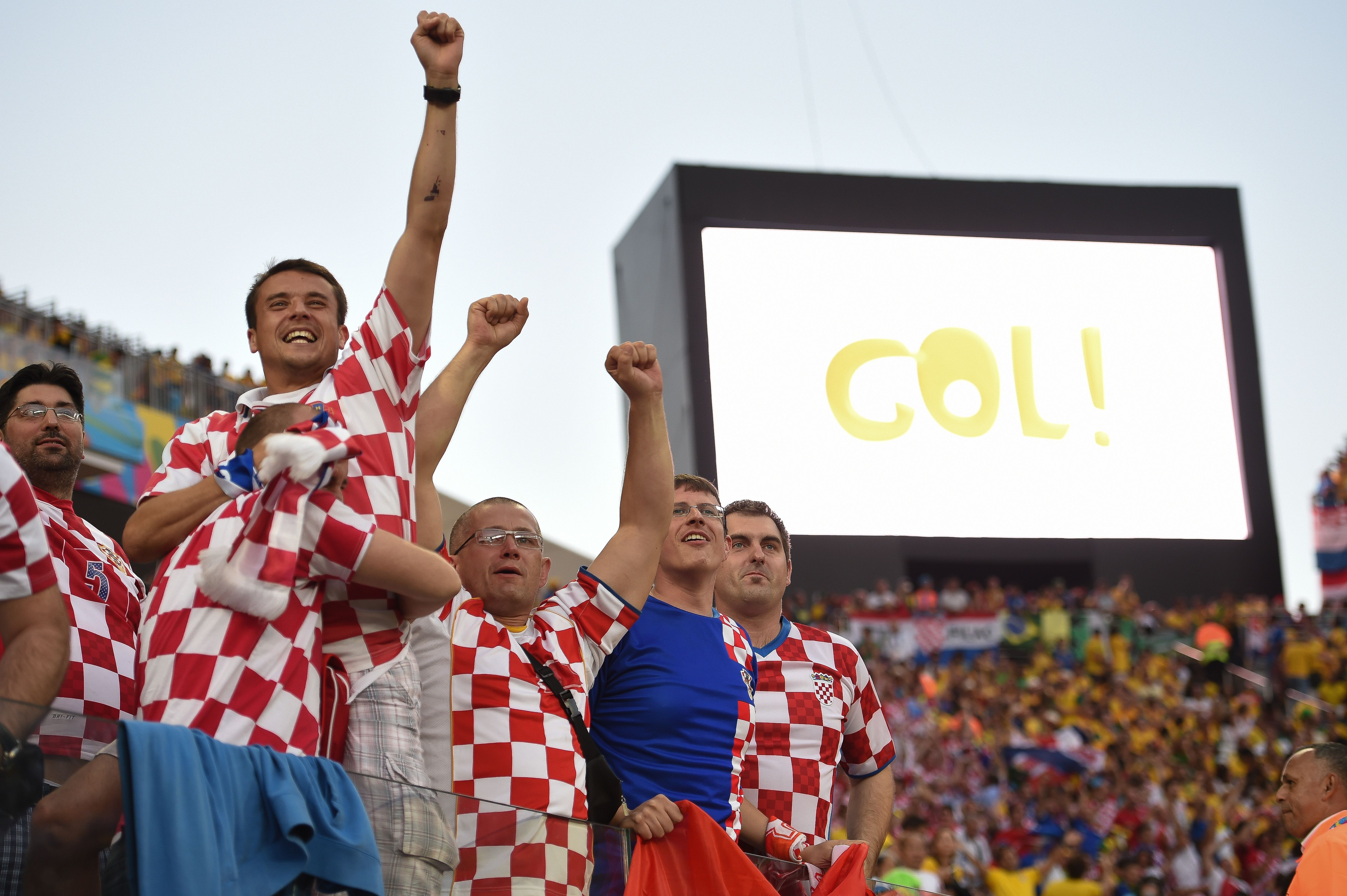 Brazil and Croatia match at the FIFA World Cup 2014-06-12